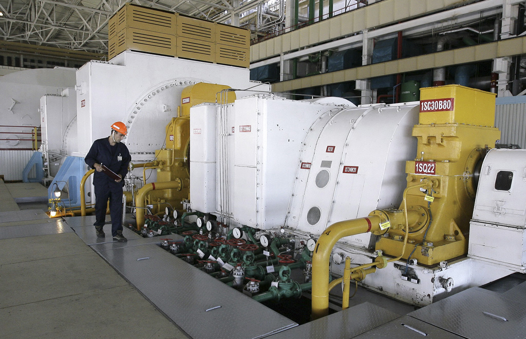 “Volgodonsk Nuclear Power Station”. Volgodonsk Nuclear Power Station.